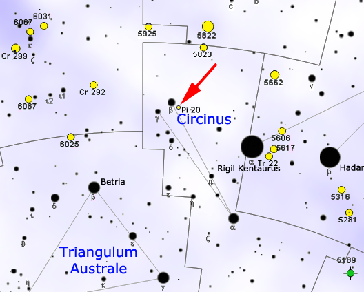 Map of Pismis 20